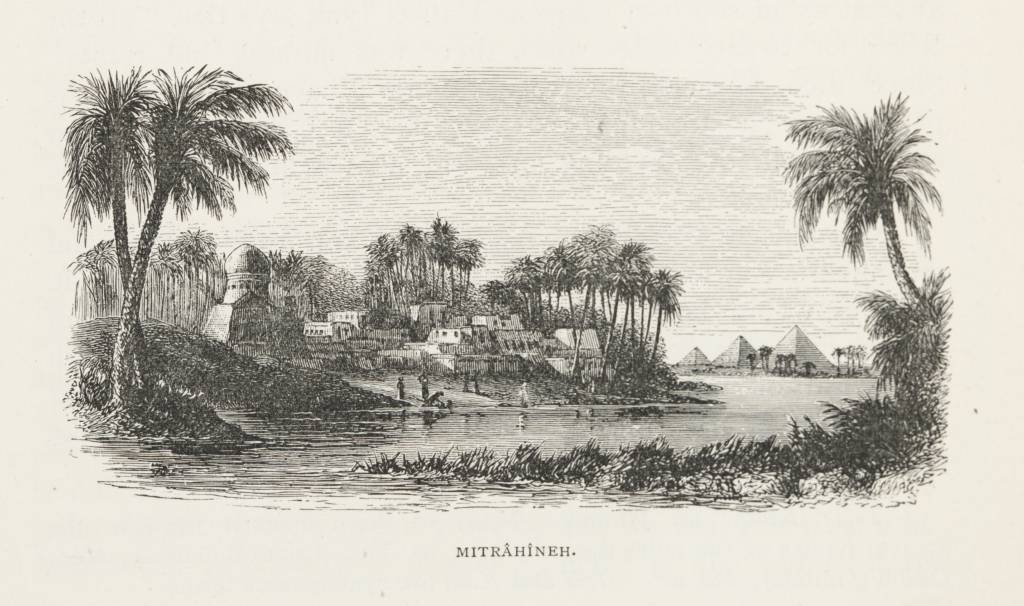 Village on the water's edge, surrounded by palms, with three pyramids visible in the background.